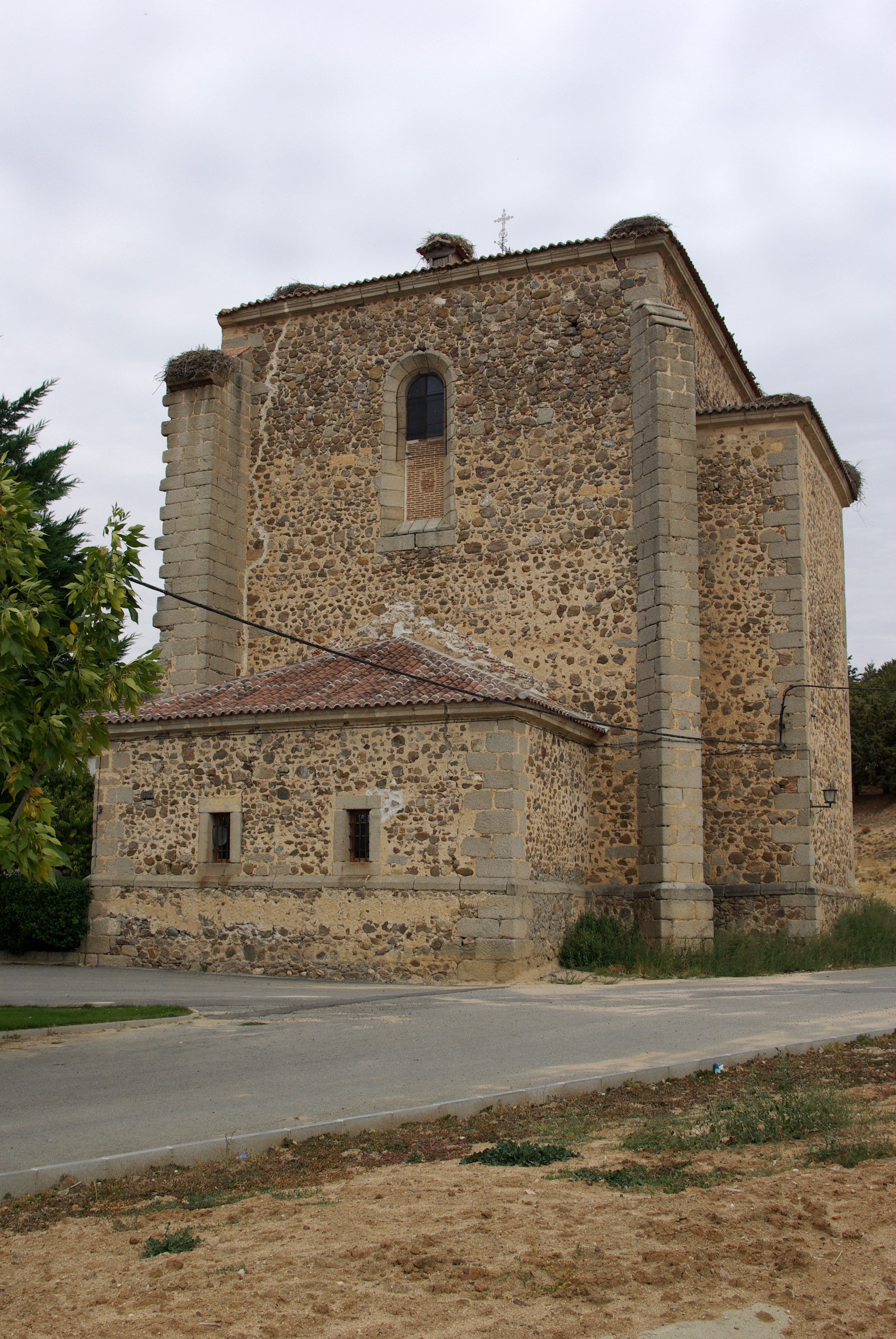 Church in Maello. Ávila, Spain.